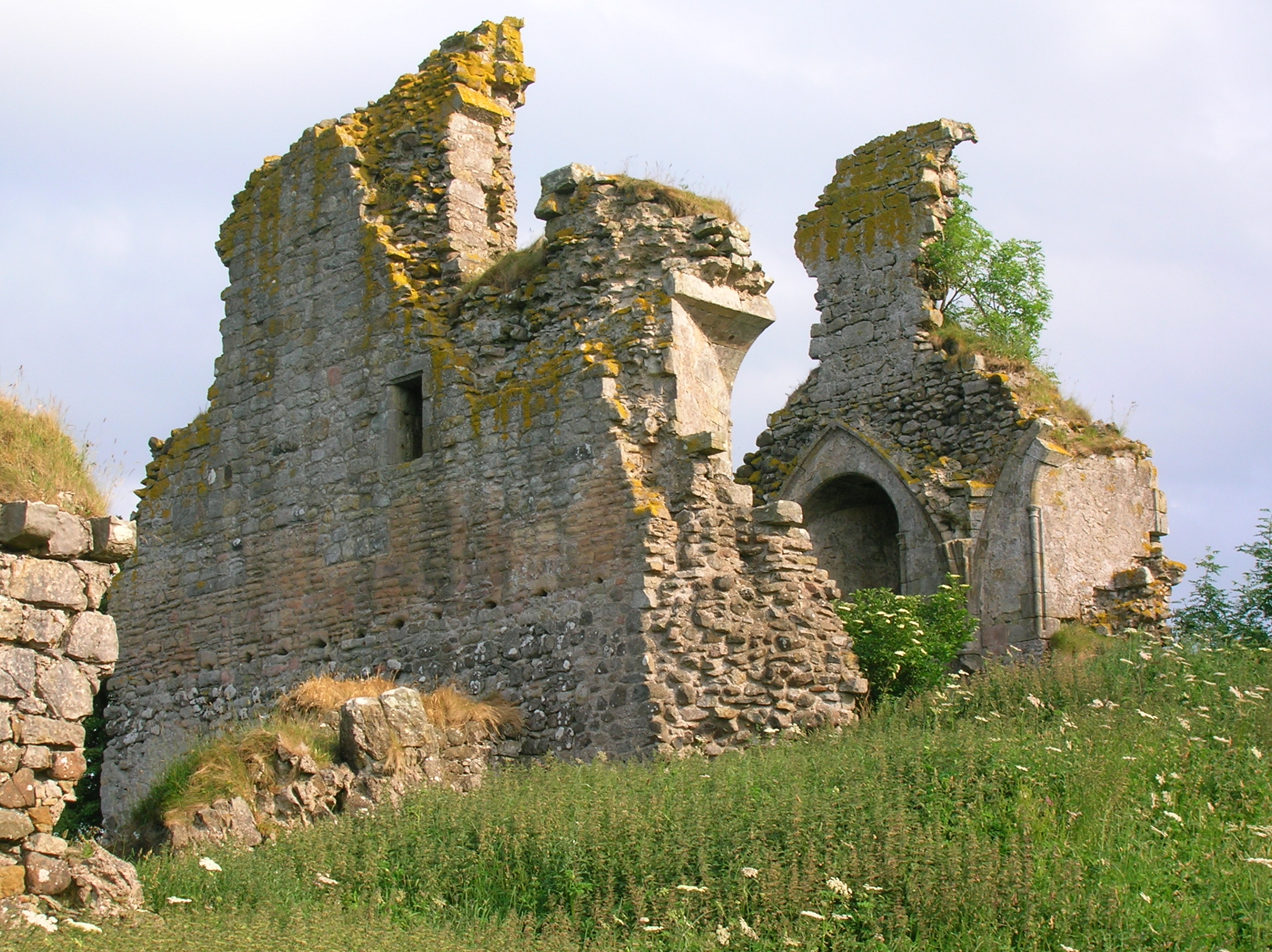 Craigie Castle, Riccarton, East Ayrshire, Scotland